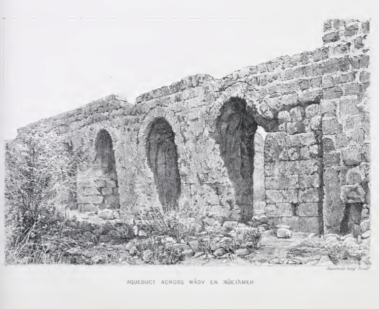 Nueiameh